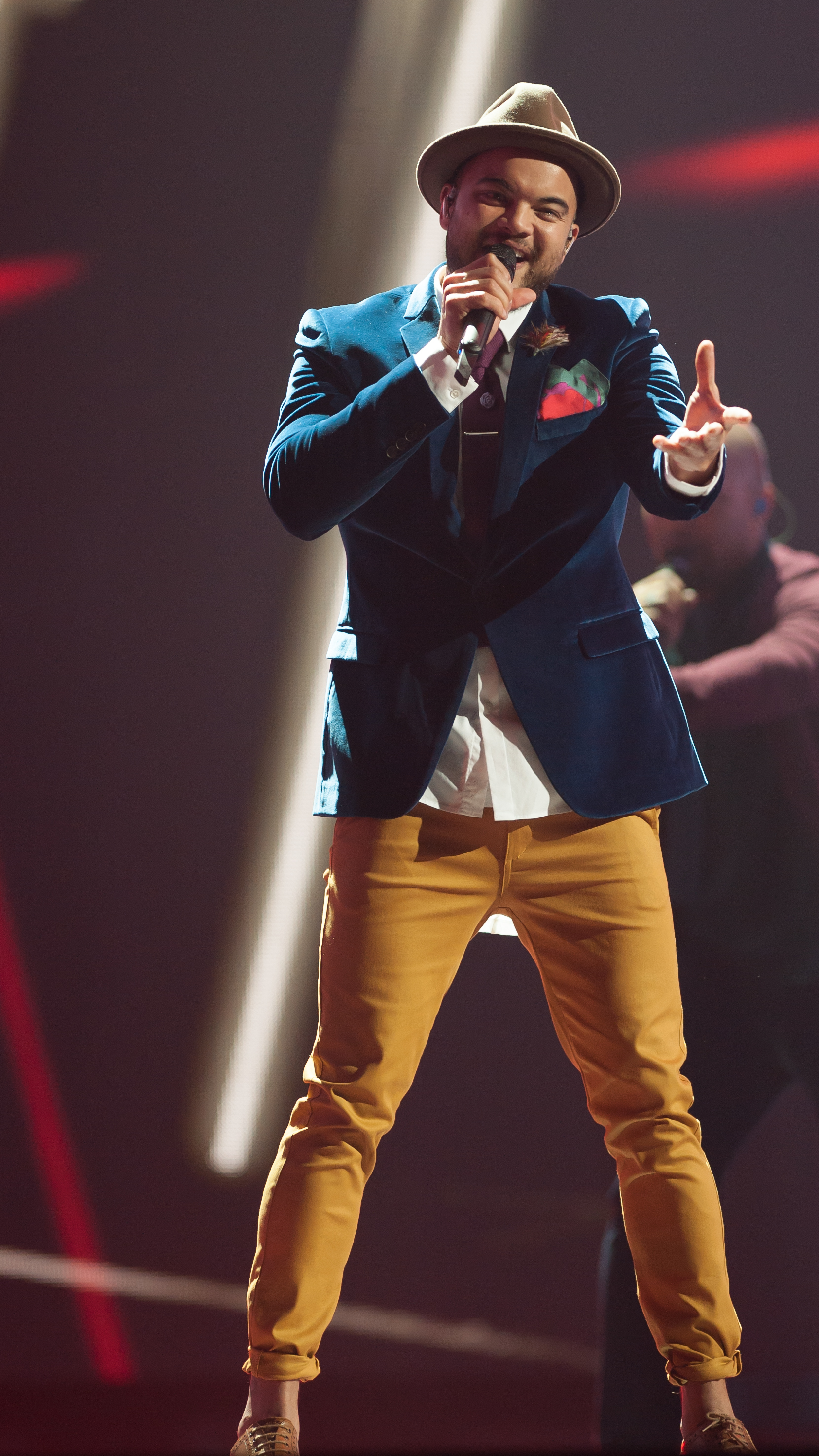 Eurovision Song Contest Vienna 2015: Guy Sebastian